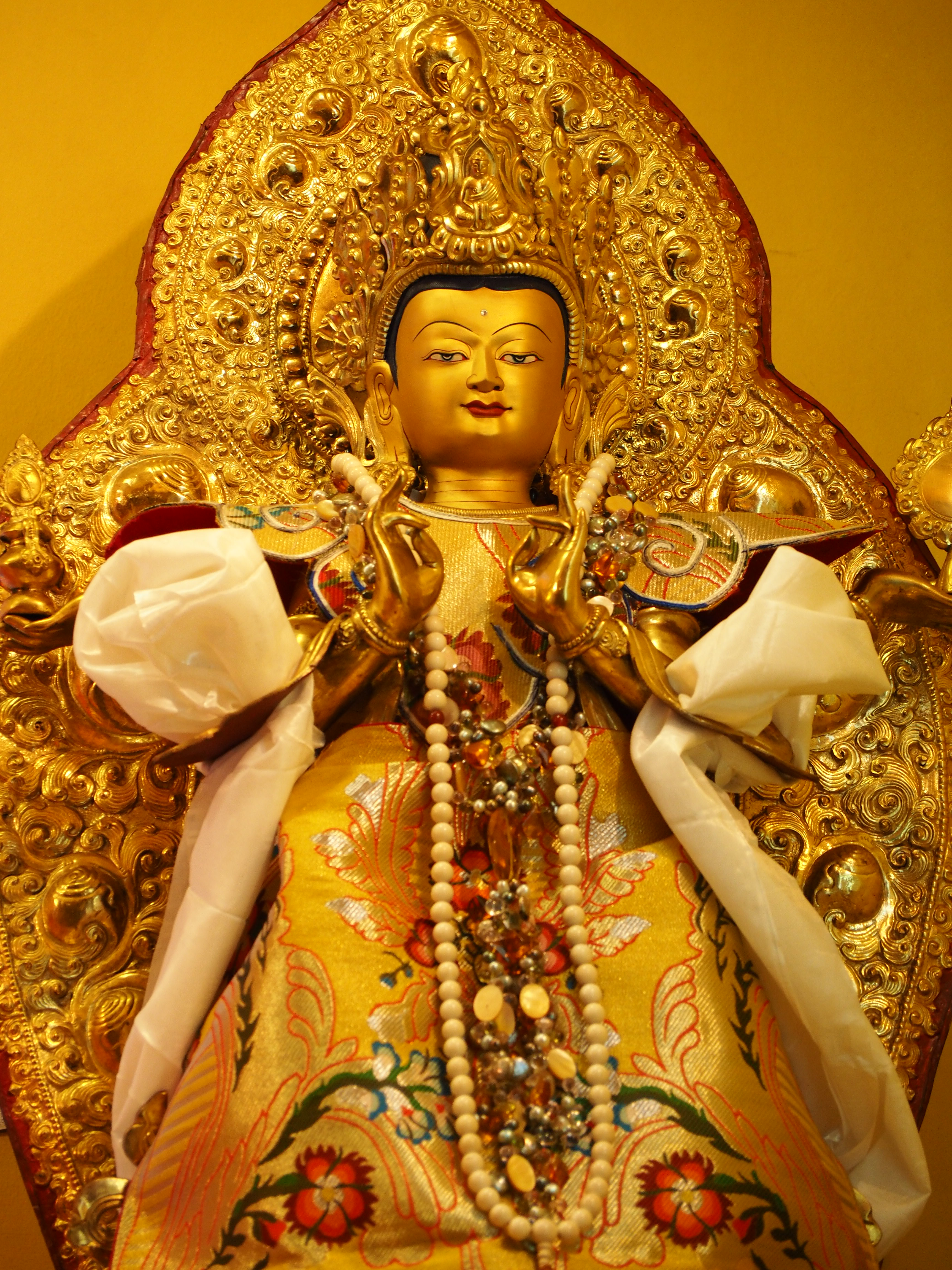 Mig Chenresig